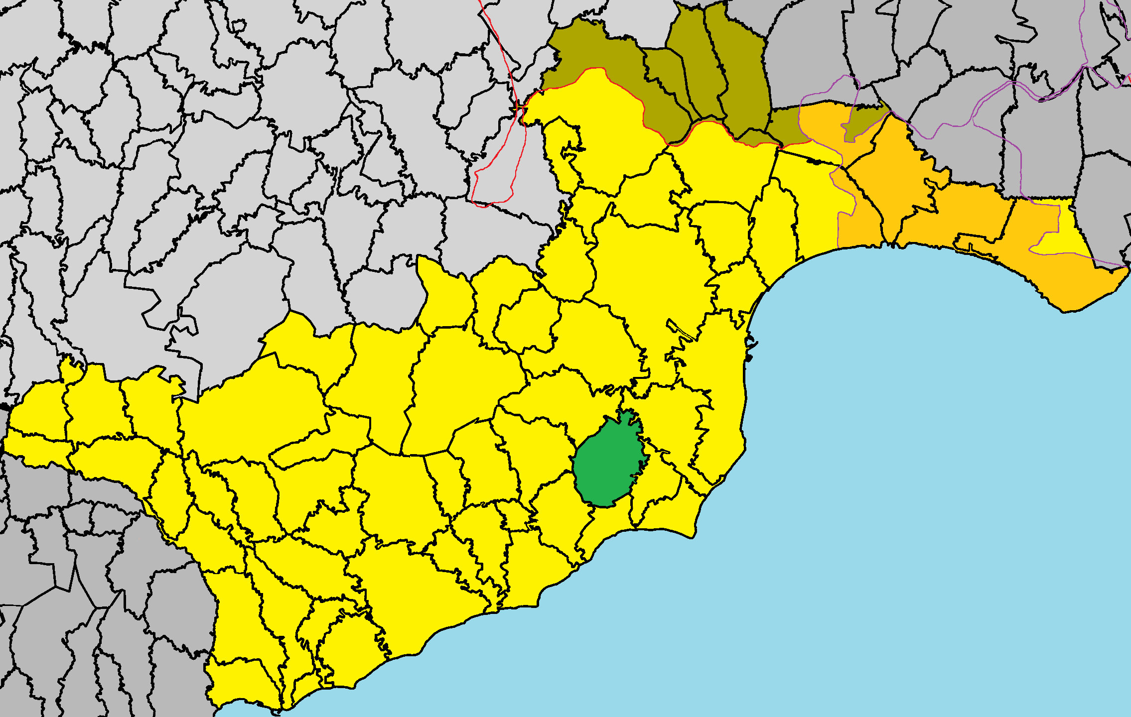 Tersefanou in Larnaca District.